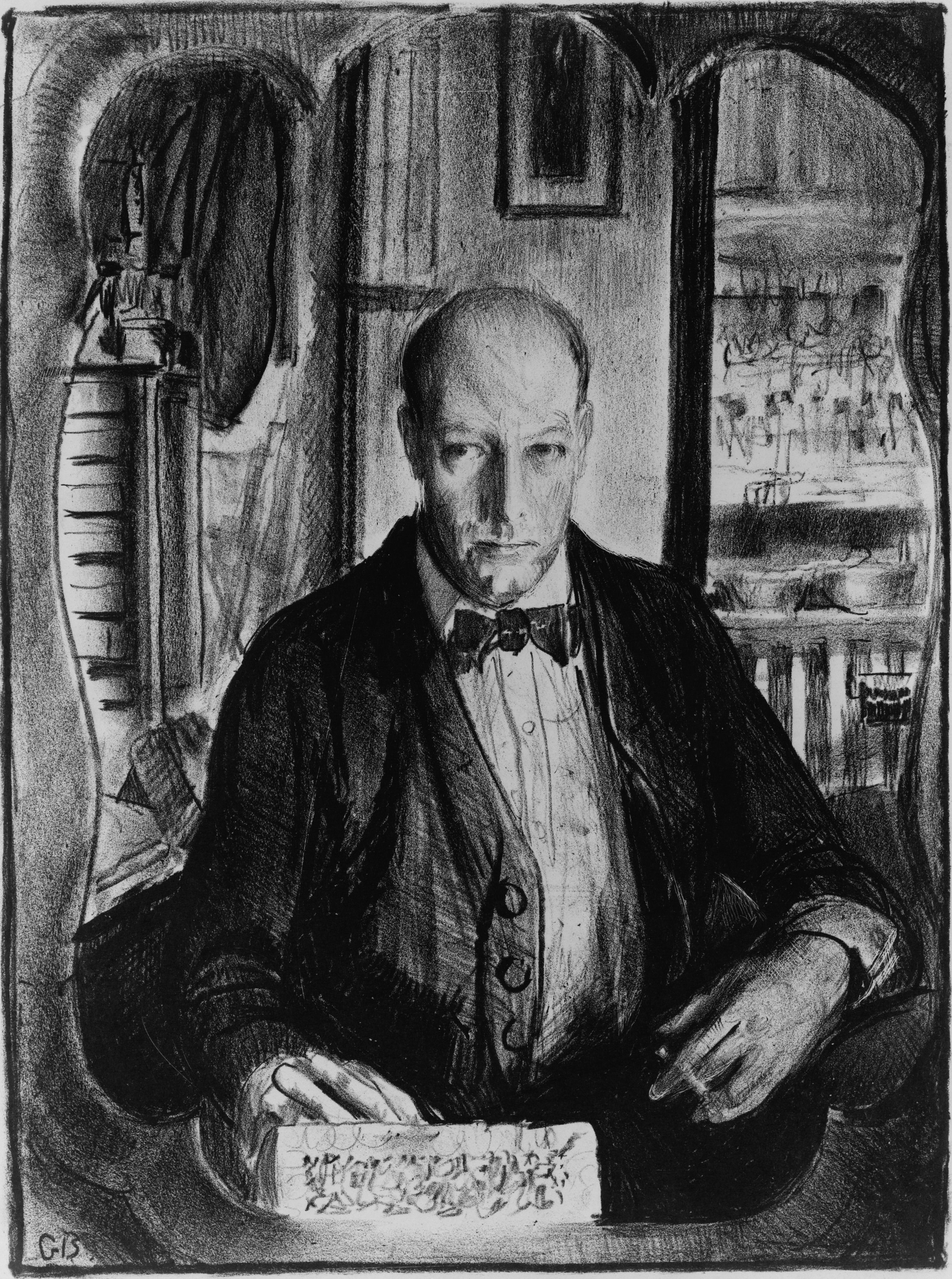 American painter George Bellows (1882-1925). Self-portrait.